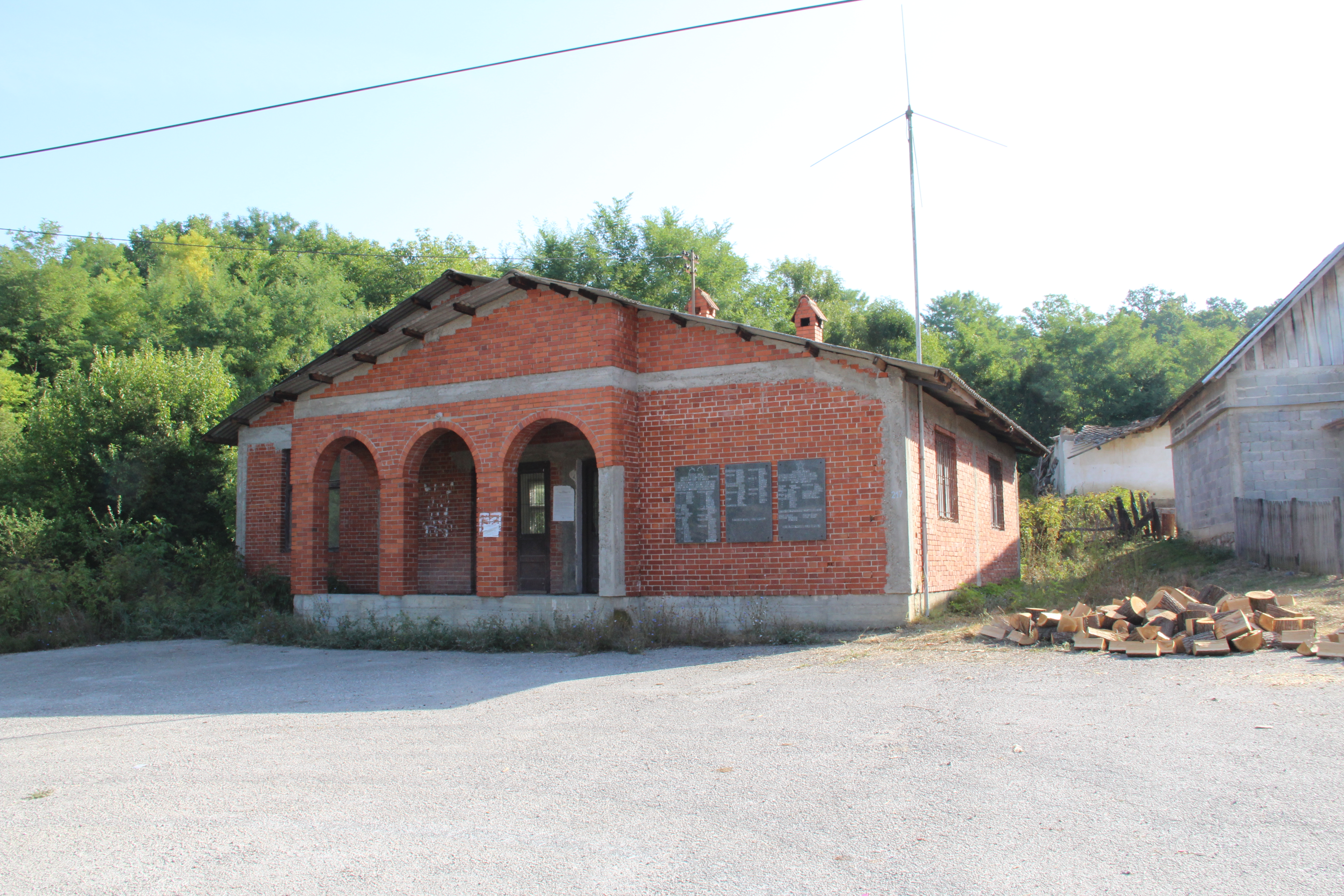 Virovac village - Municipality of Valjevo - Western Serbia - Building local community